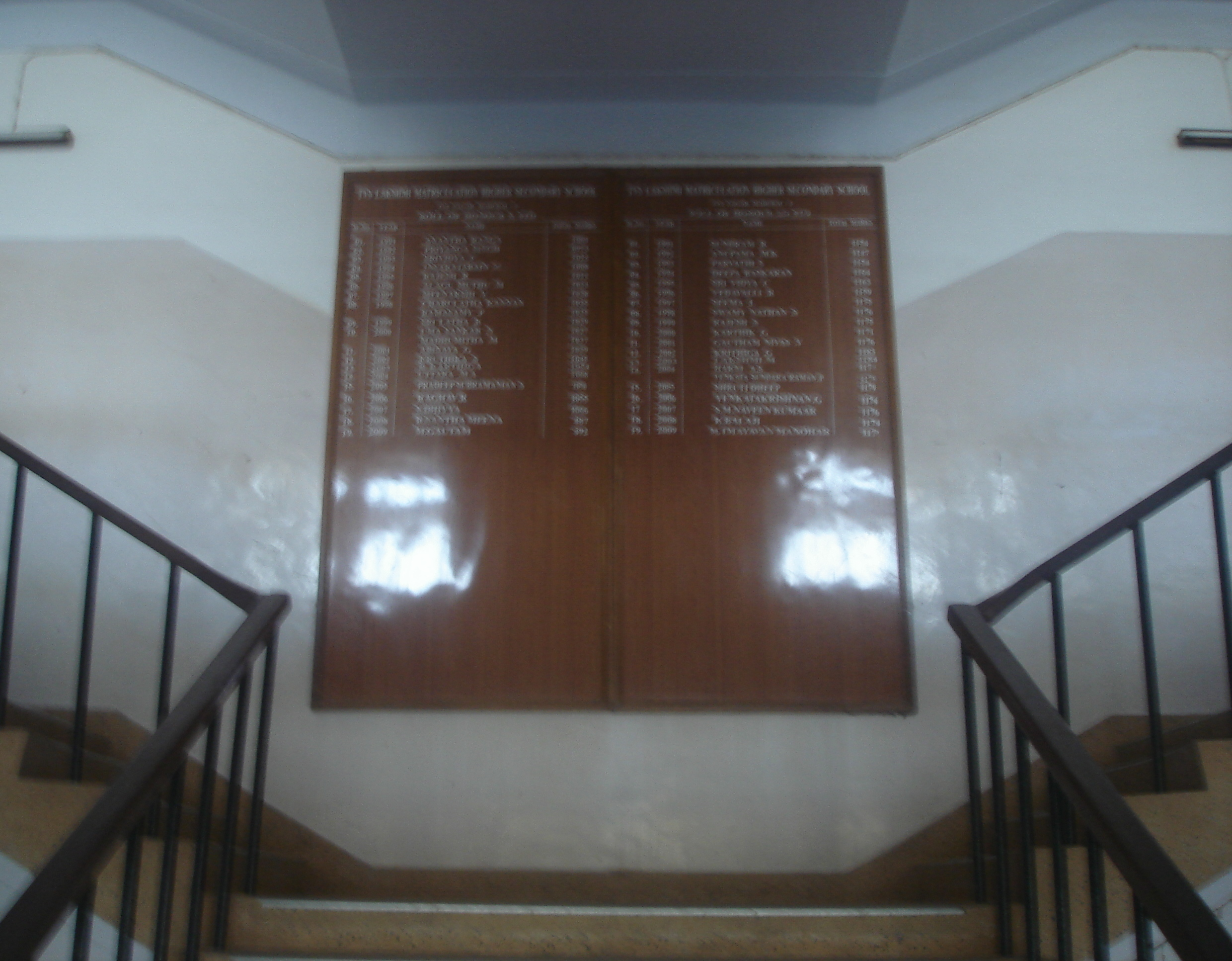 This image shows the main staircase of the TVSMHSS showing the list of school toppers of the 10th and 12th standard.